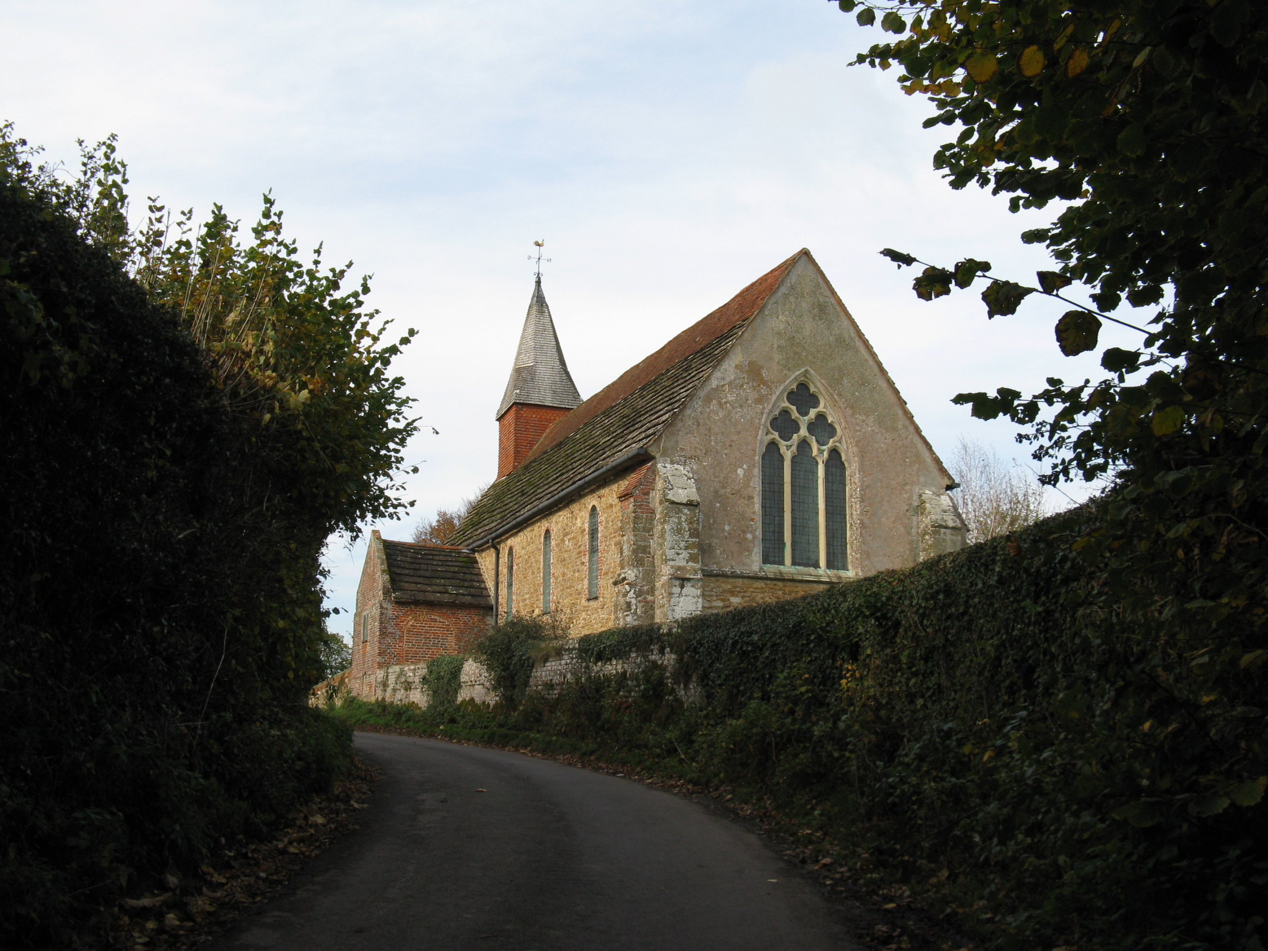 Warminghurst Church